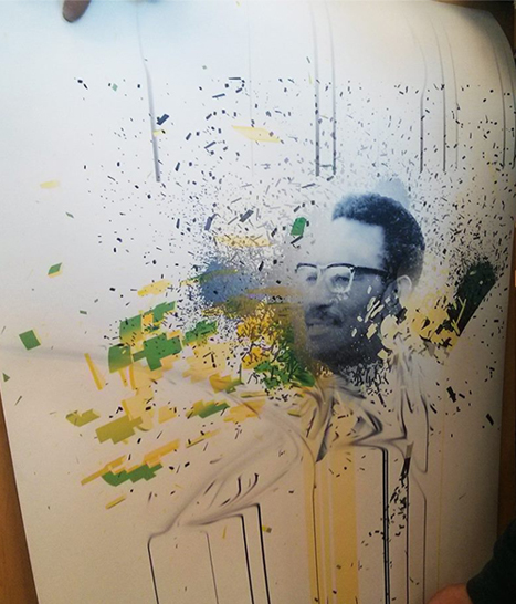 Digital painting of Cheikh Anta Diop, By Ade Olufeko. Showcased at African Business Club Cultural Showcase for 16th African Business Conference in Boston at the Harvard Business School